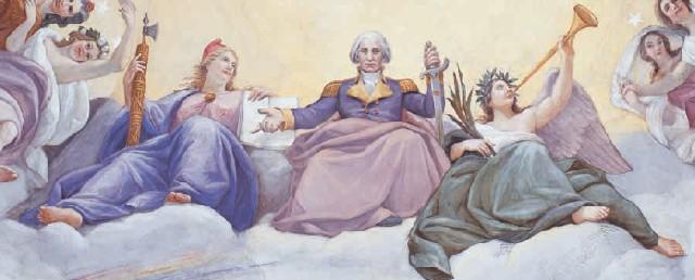 detail: George Washington sits enthroned over a rainbow